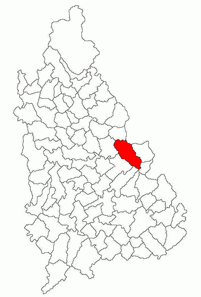 Locator map of I.L. Caragiale Commune in Dâmbovița County, Romania